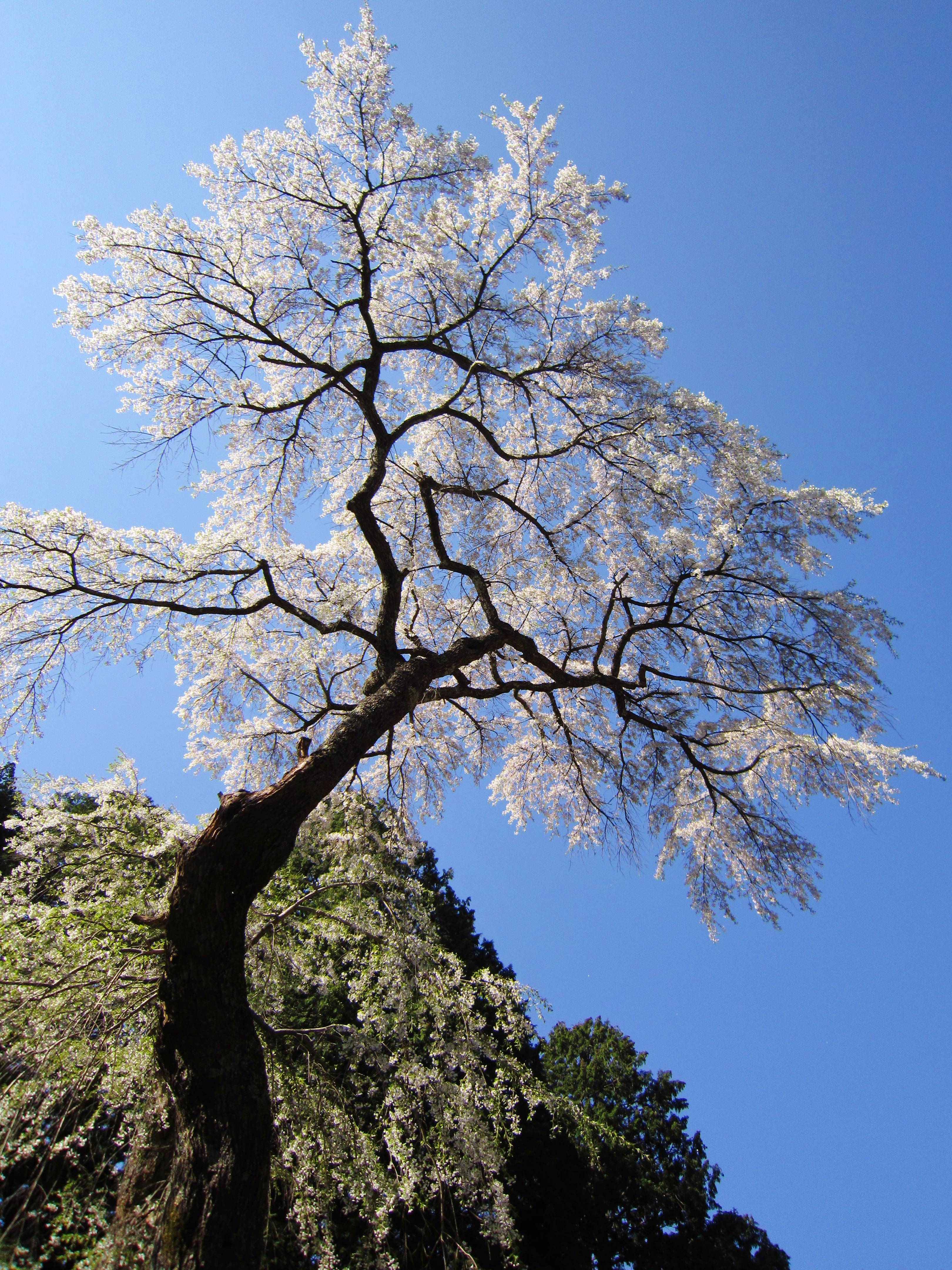 Kiyomizu-dera (Yamagata, Nagano) Gyōkizakura.